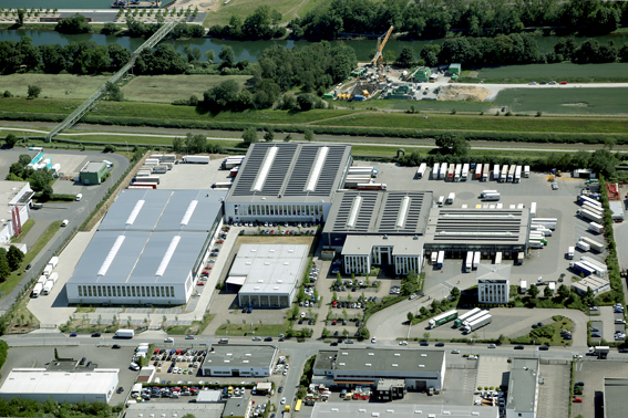 LOXX Headquarters in Gelsenkirchen